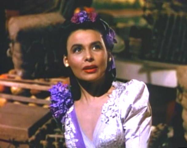 Screenshot from the film Till Clouds Roll By (1946) of Lena Horne. It is part of the Show Boat segment, and she is singing "Can't Help Lovin' Dat Man".